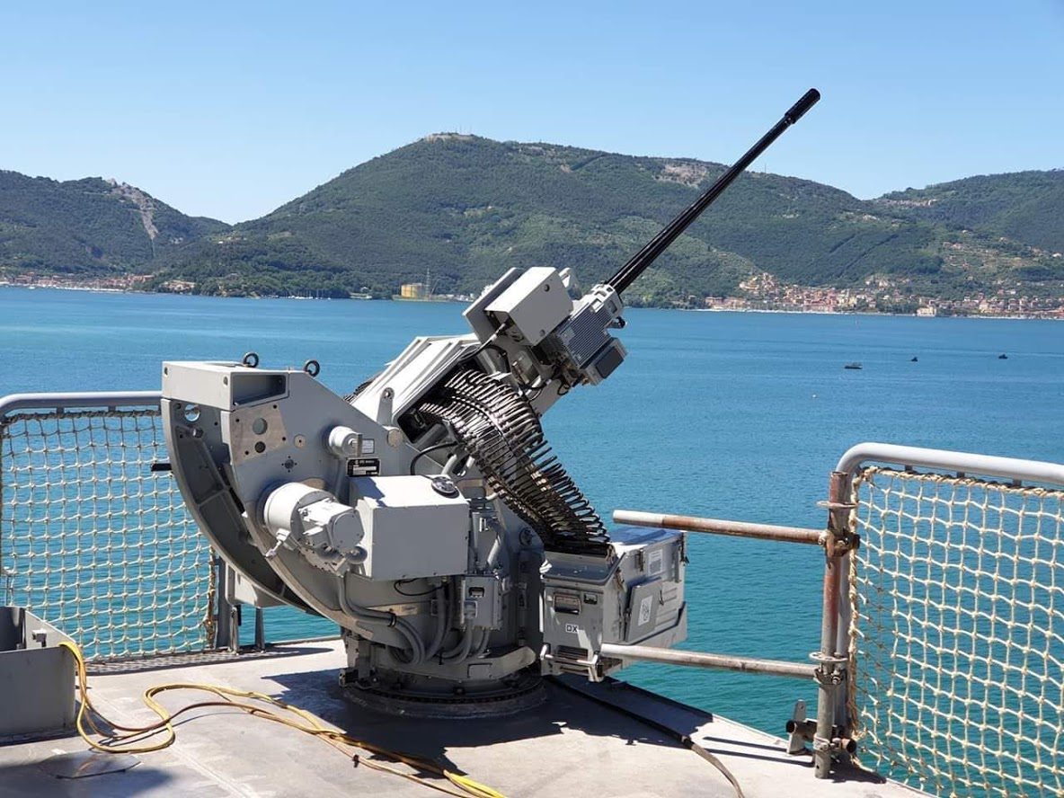 OTO KBA Remote Turret